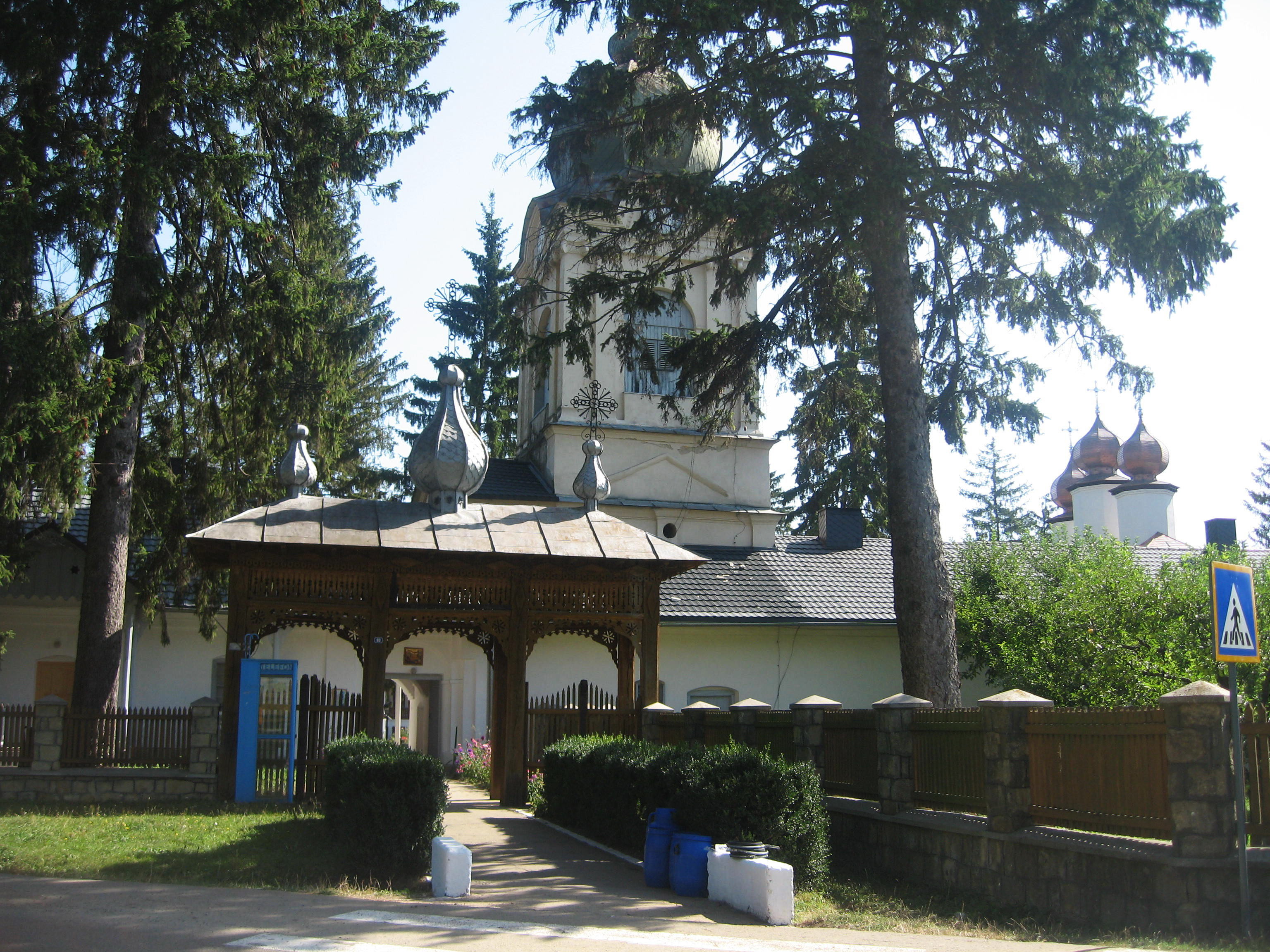 Mănăstirea Vorona